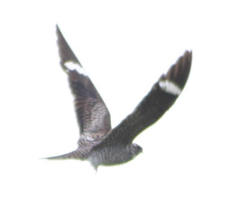 I, Daniel Berganza, took this picture near Miami Florida